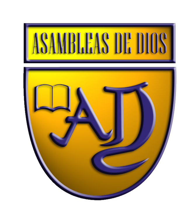 This is a logo for Assemblies of God in Latin American very countries use this logo, but the principal is Mexico. This image its of the public domain, because is a religious association. The permisson is in artículo 14 fracción VII de la Ley Federal del Derecho de Autor